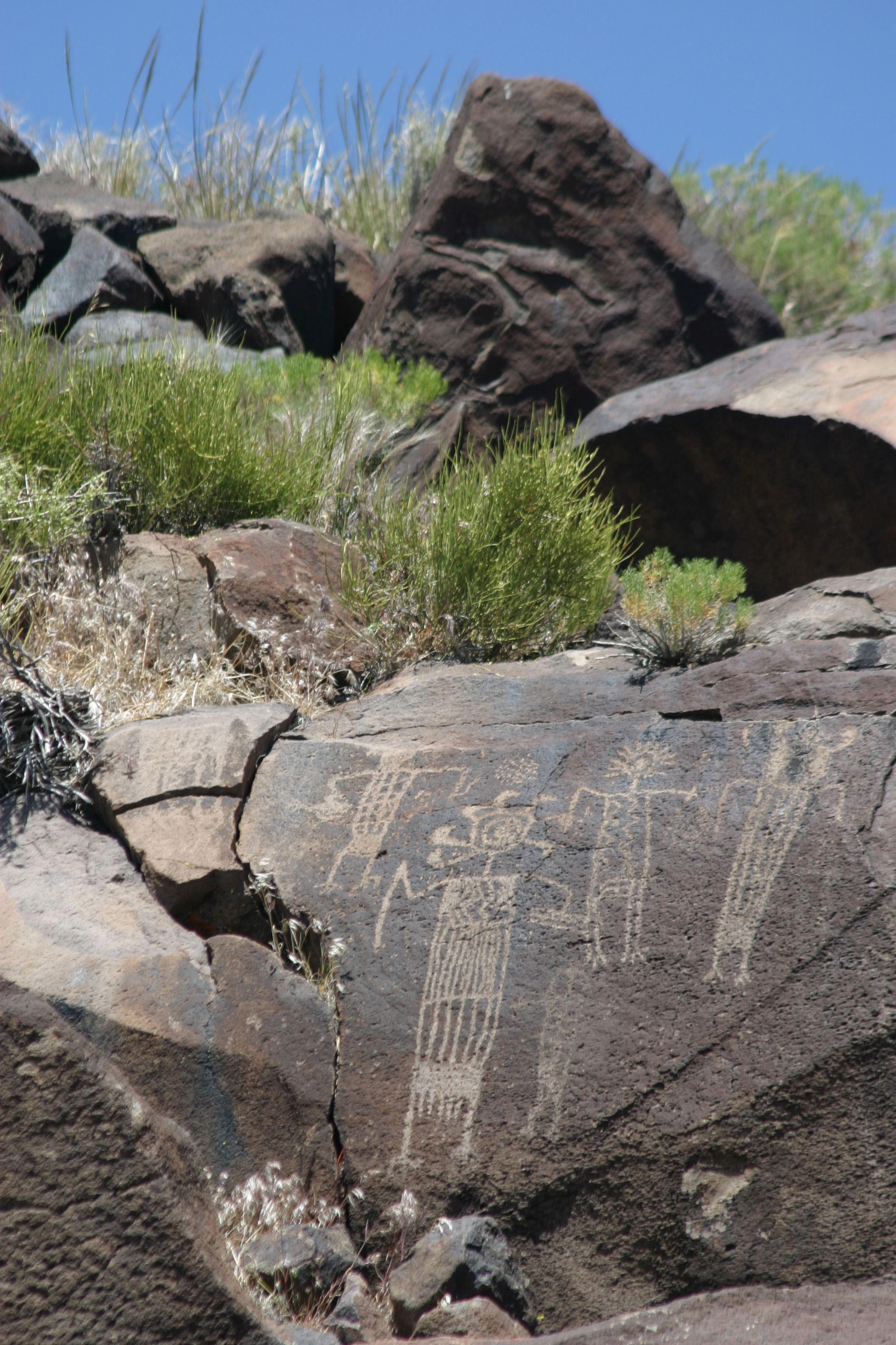 More than 250,000 pre-historic rock art petroglyph drawings can be found at the Coso Rock Art National Historic Landmark in the Mojave Desert, located on 36,000 acres at Naval Air Weapons Station China Lake, California. China Lake, Calif. (May 20, 2005) - The Navy held a dedication ceremony to recognize the site as a National Historic Landmark, and recognized partnerships between the Navy, other government agencies and the civilian community who helped preserve, protect and provide access to the site. U.S. Navy photo by Journalist Senior Chief Jon E. McMillan (RELEASED)